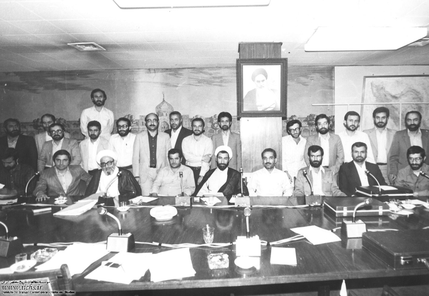 People of Second Cabinet of Islamic Republic of Iran. Standing from left to right: Mohammad Gharazi- Abbas Dozdozani- Hossein Kazempoor Ardabili- unknown- unknown- Mohammad-Shahab Gonabadi- unknown- unknown- Mousa Kalantari- Mohammad-Ali Najafi- unknown- Mir-Hossein Mousavi- unknown- unknown- Hadi Manafi Sitting from left to right: unknown- unknown- Mohammad-Reza Mahdavi Kani- unknown- Mohammad-Javad Bahonar- Mohammad-Ali Rajai- Hassan Ghafori Fard- Mousa Namjoo- Behzad Nabavi